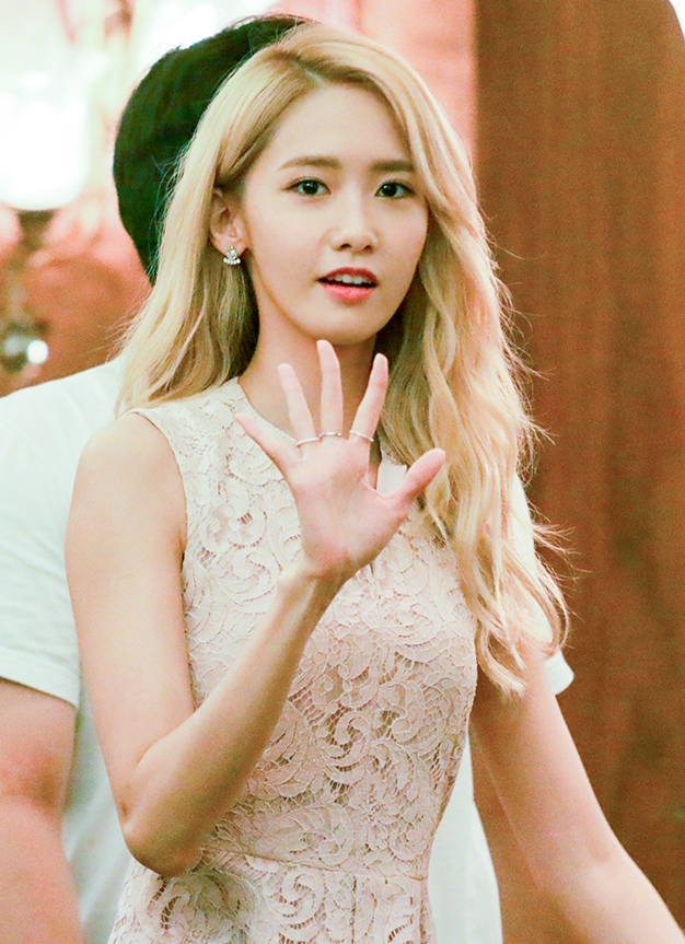 Yoona at press conference Channel Girls' Generation on July 21, 2015.